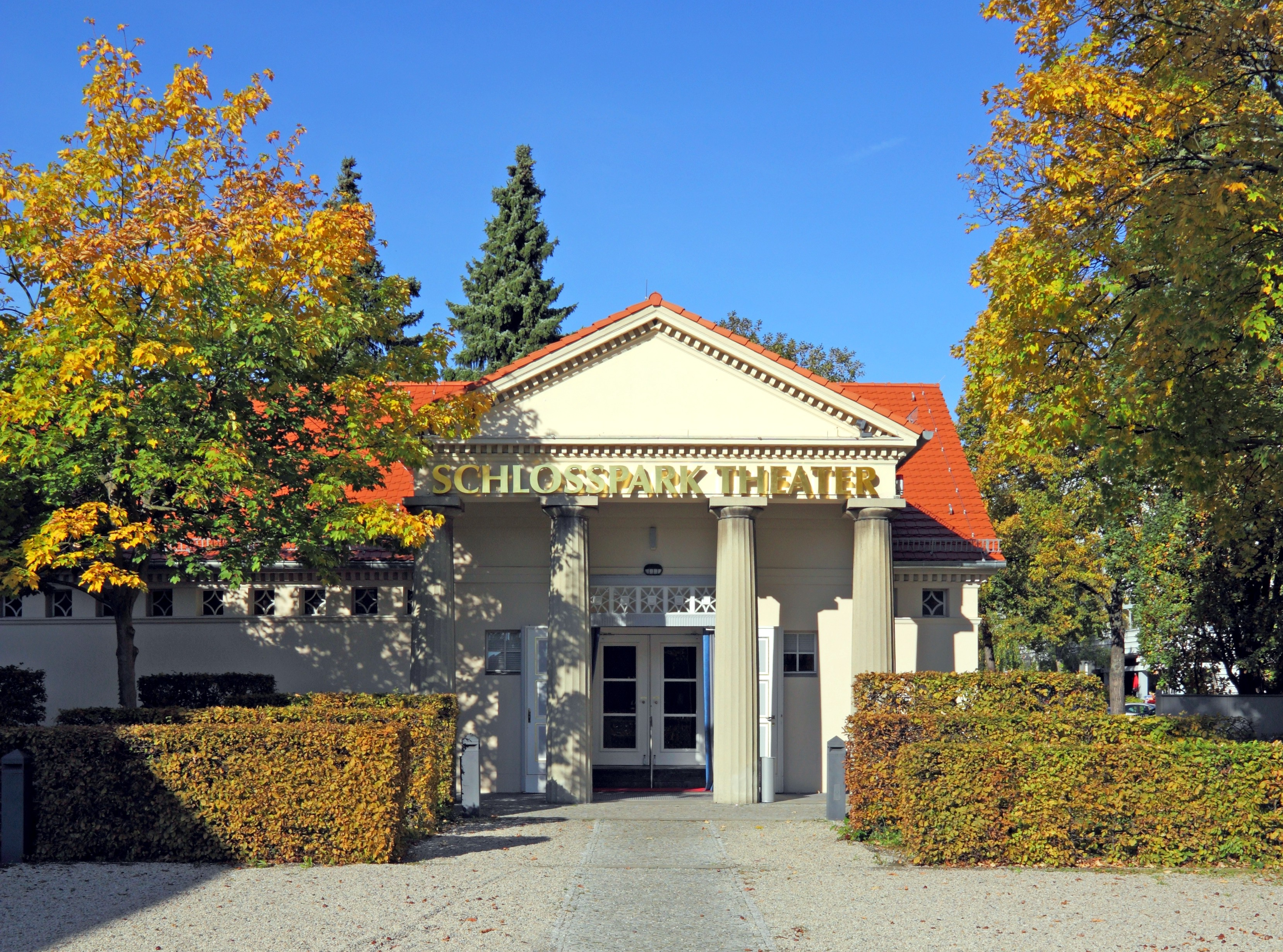 Berlin-Steglitz. Schlosspark Theatre facade.